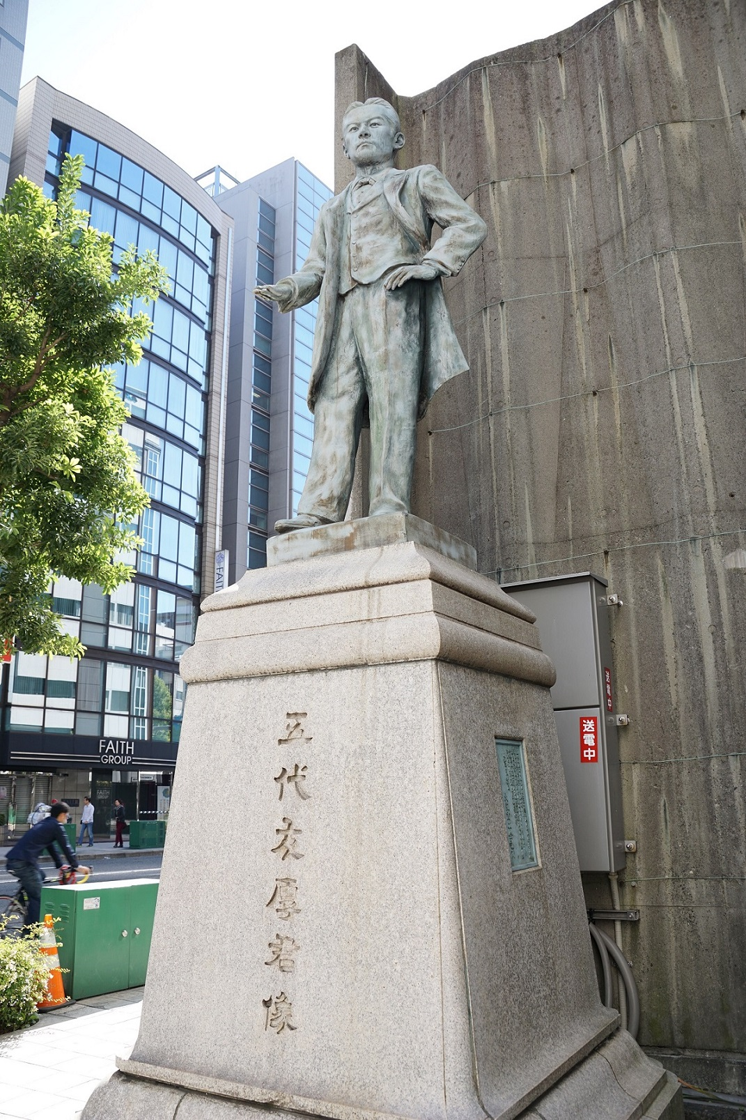 Statue of Godai Tomoatsu at Osaka Chamber of Commerce and Industry